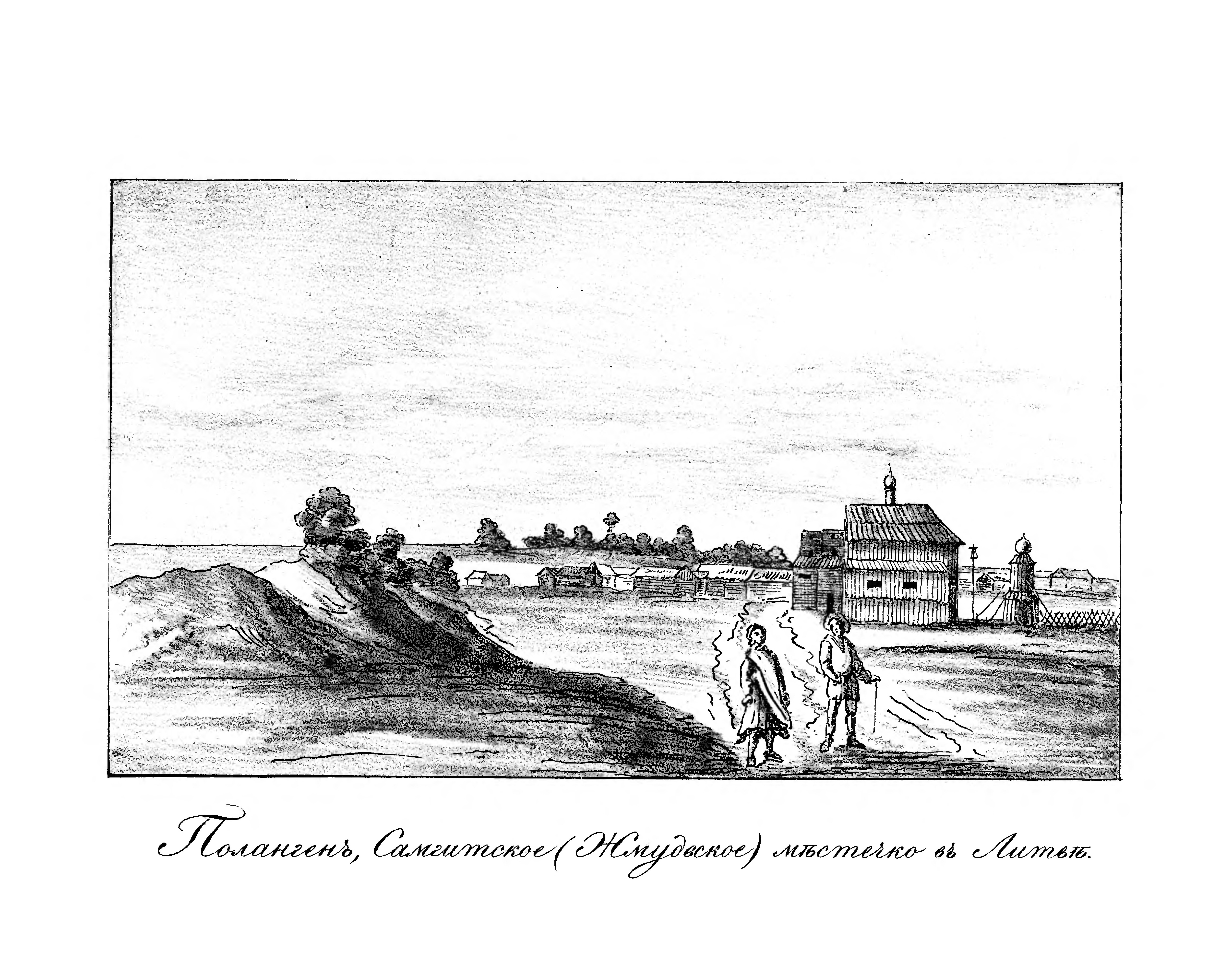 This is a picture from the book of the Austrian diplomat Augustin Meyerberg «Travel to Moscovia». Town of Palanga in 1661.